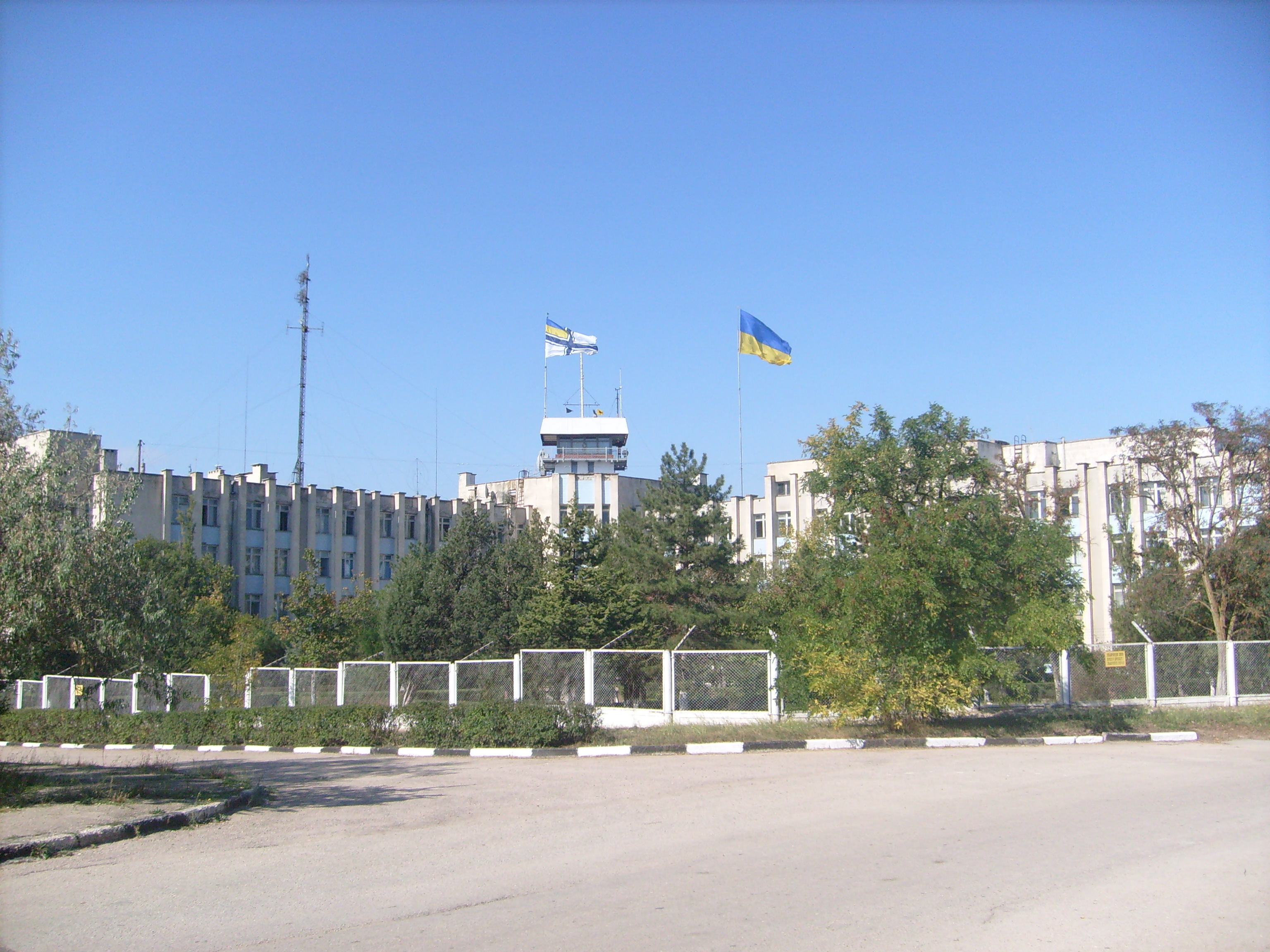 Novoozerno